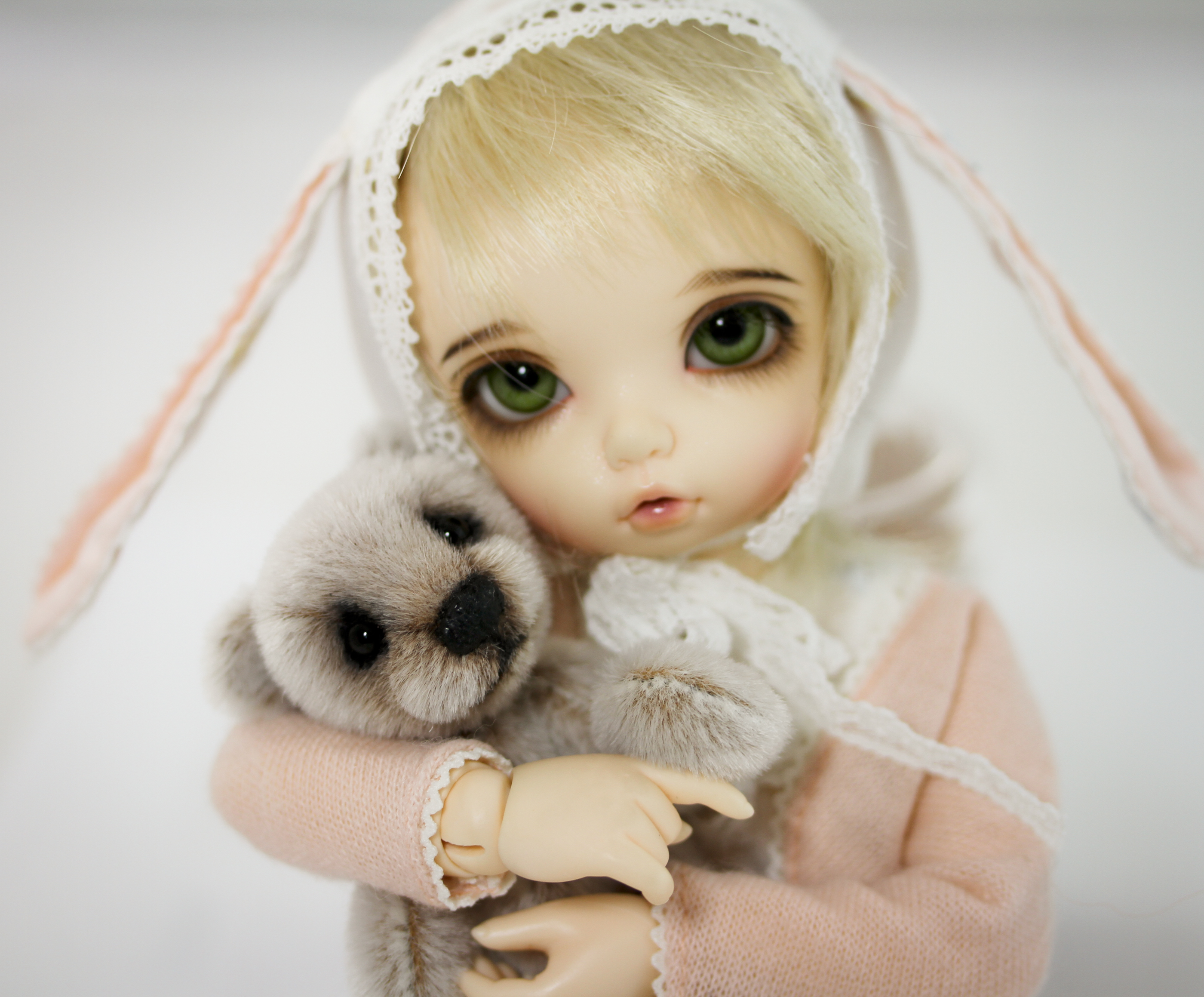 Bisou and Isobel